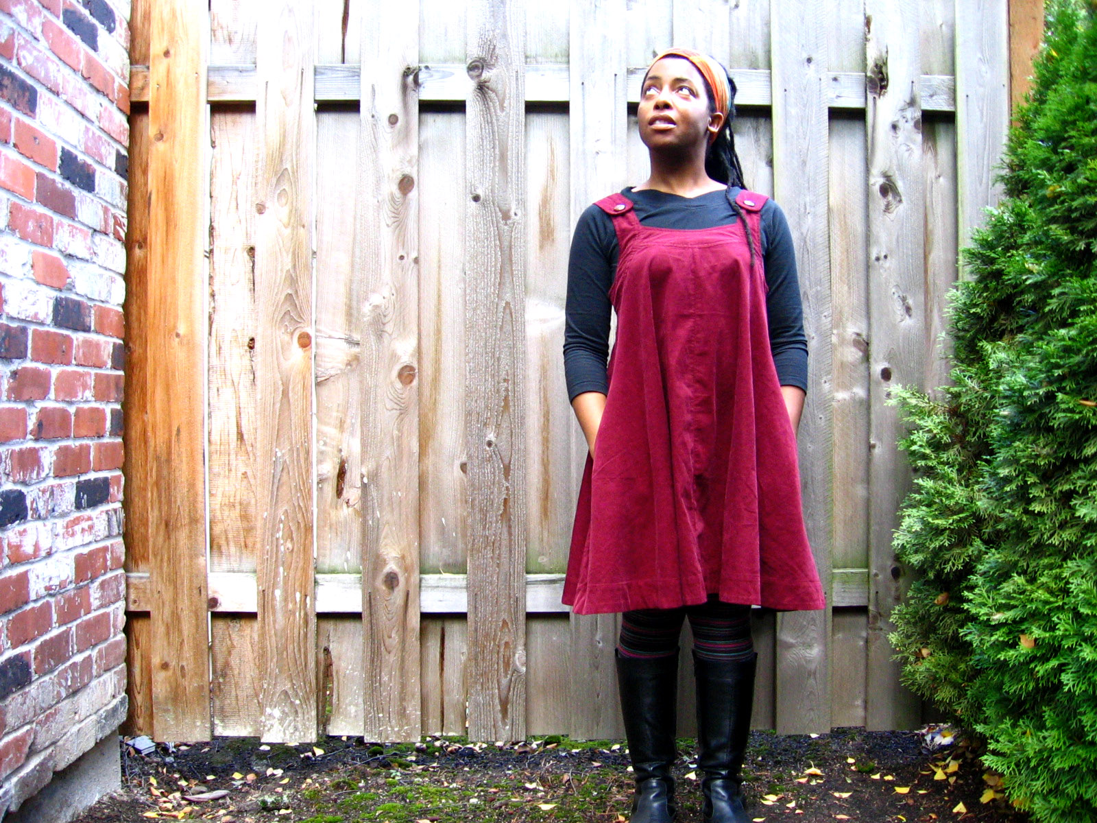 Woman wearing a red jumper dress over a dark blue top.